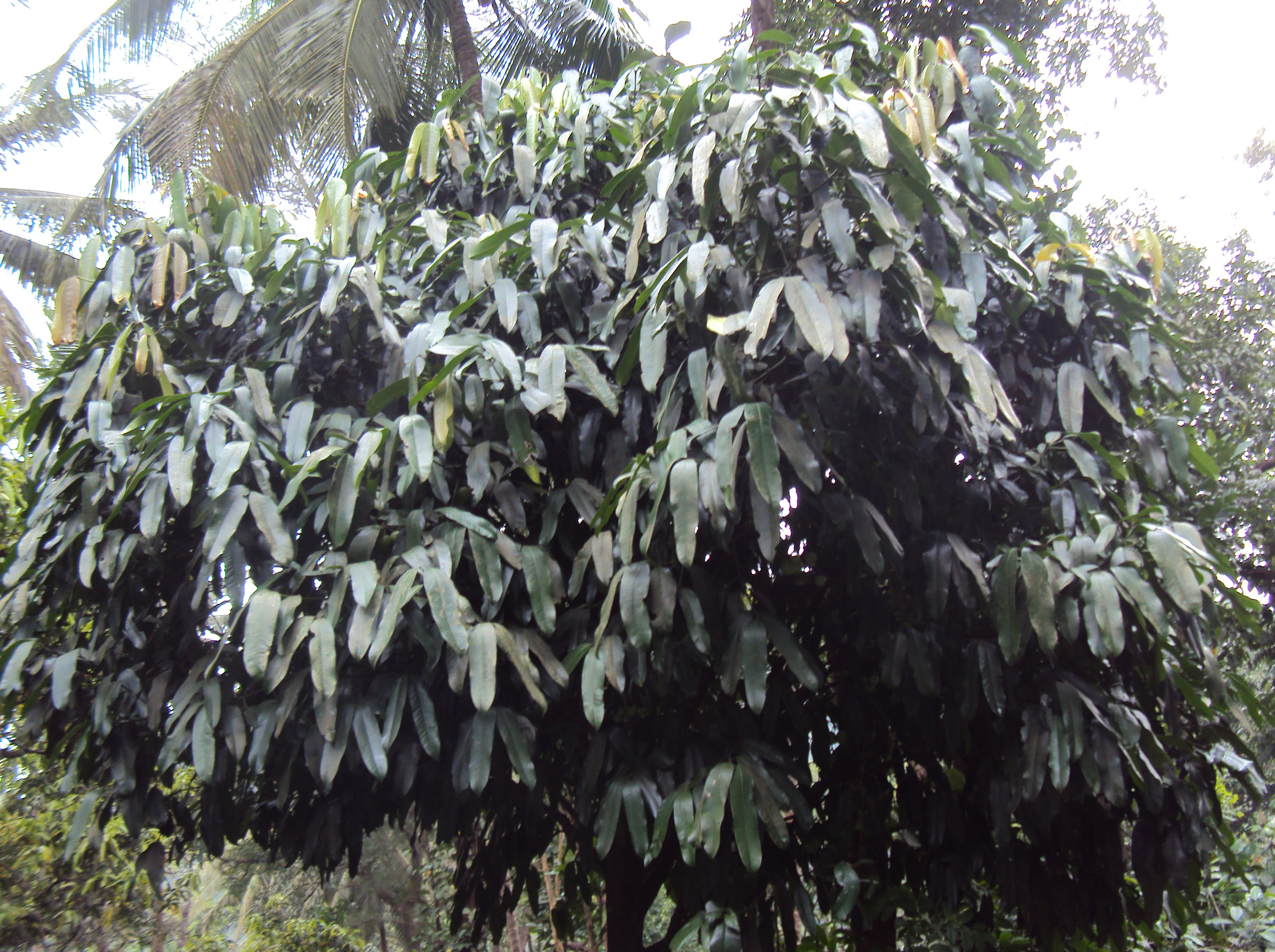 Garcinia tinctoria